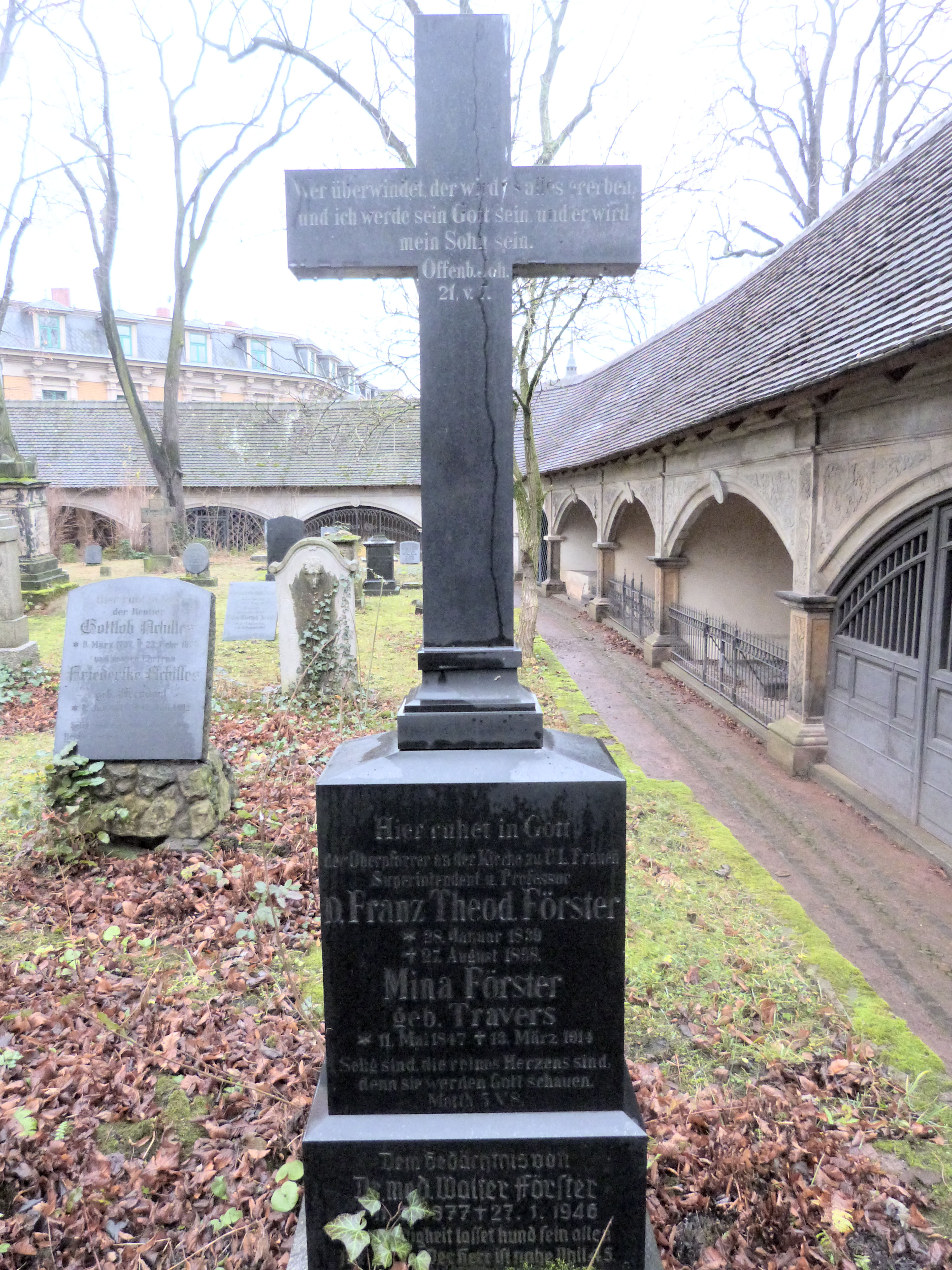 Grave of the theologian Theodor Förster (1839-1898), cemetery Stadtgottesacker in Halle (Saale)